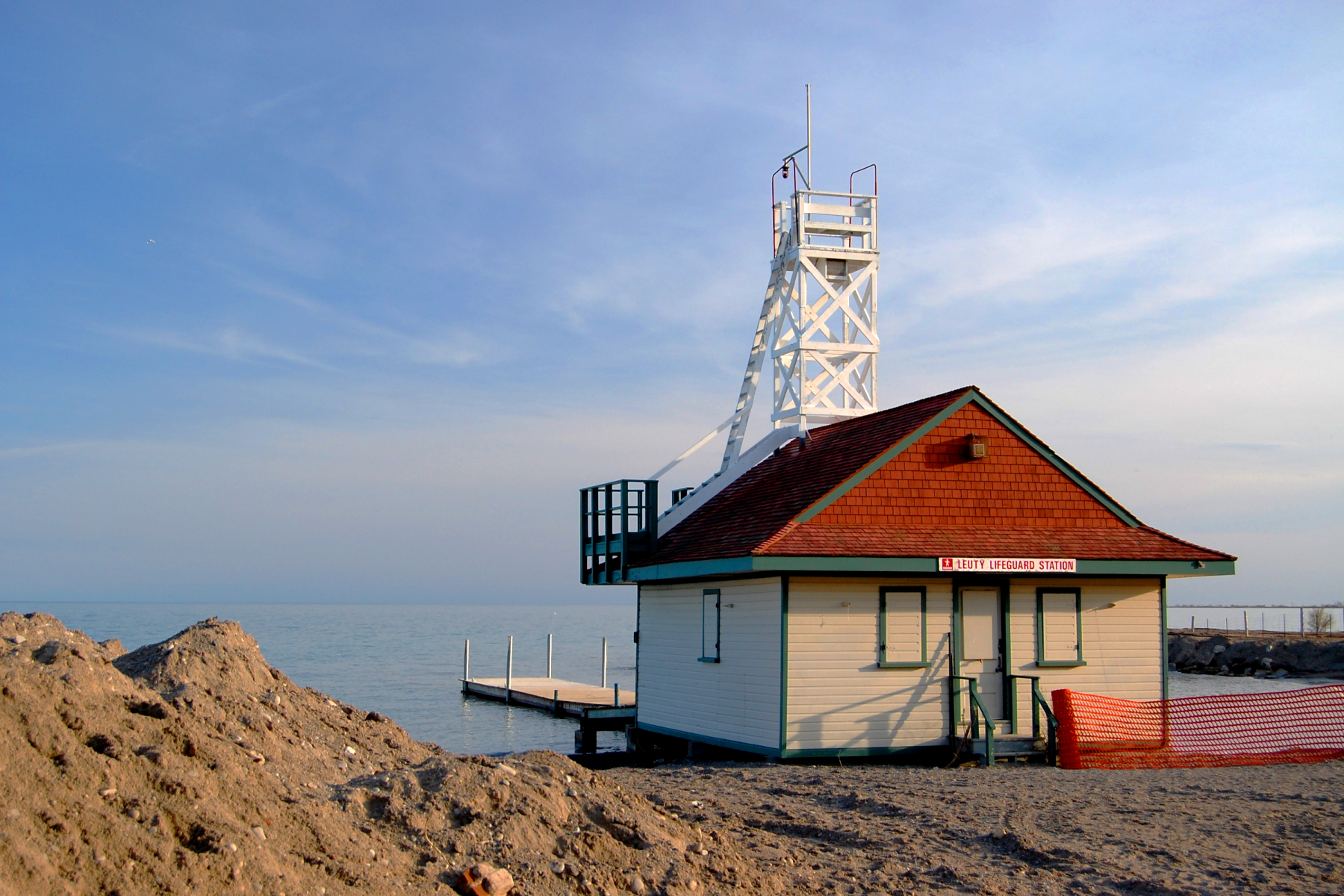 Leuty Lifeguard Station in the Beaches neighbourhood, looking out onto Lake Ontario. Toronto, Canada.